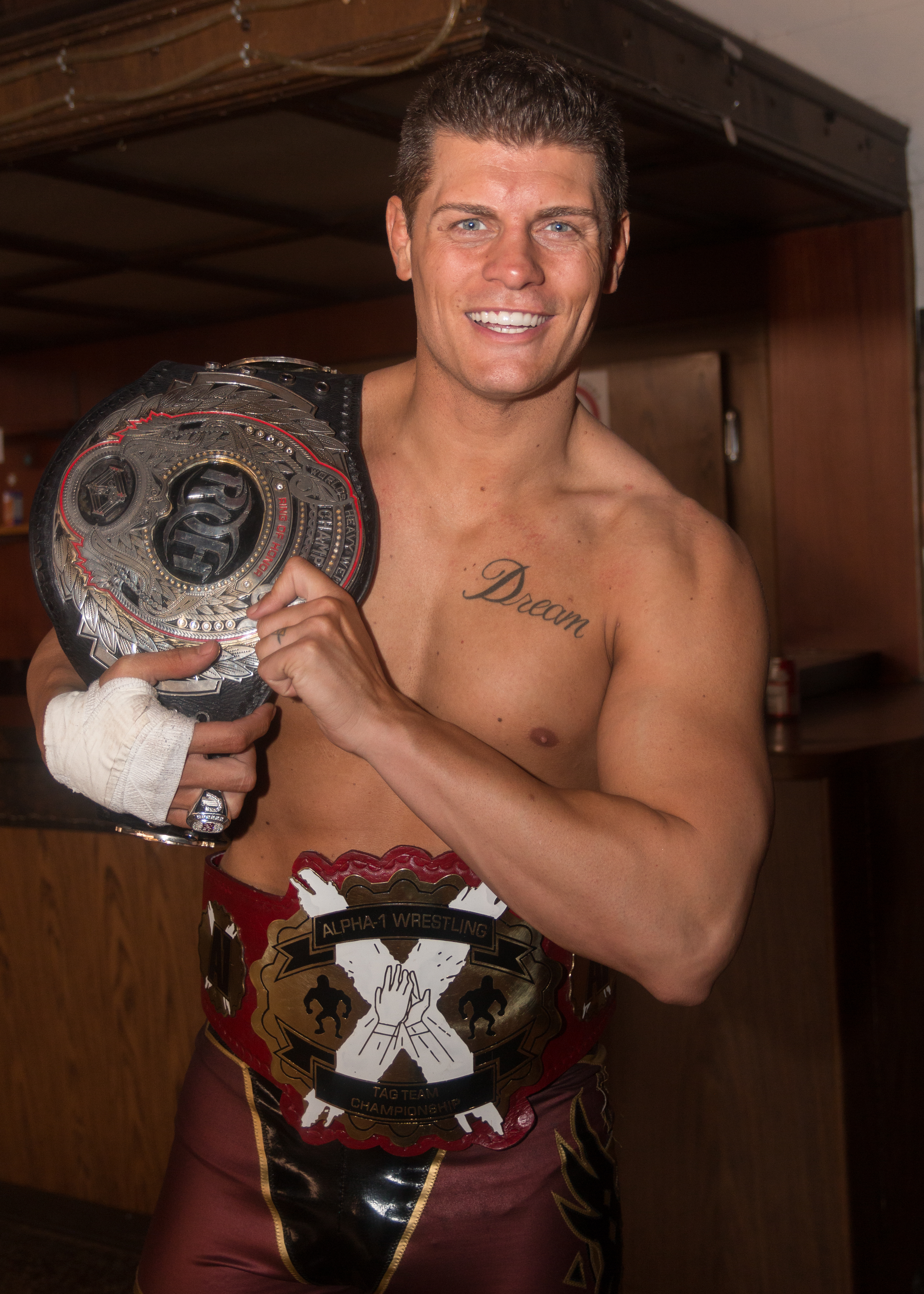 Pro wrestler Cody Rhodes posing post-show at an Alpha-1 event in Oshawa, ON. On his shoulder is the Ring of Honor Championship, around his waist is the Alpha-1 Tag Team Championship.